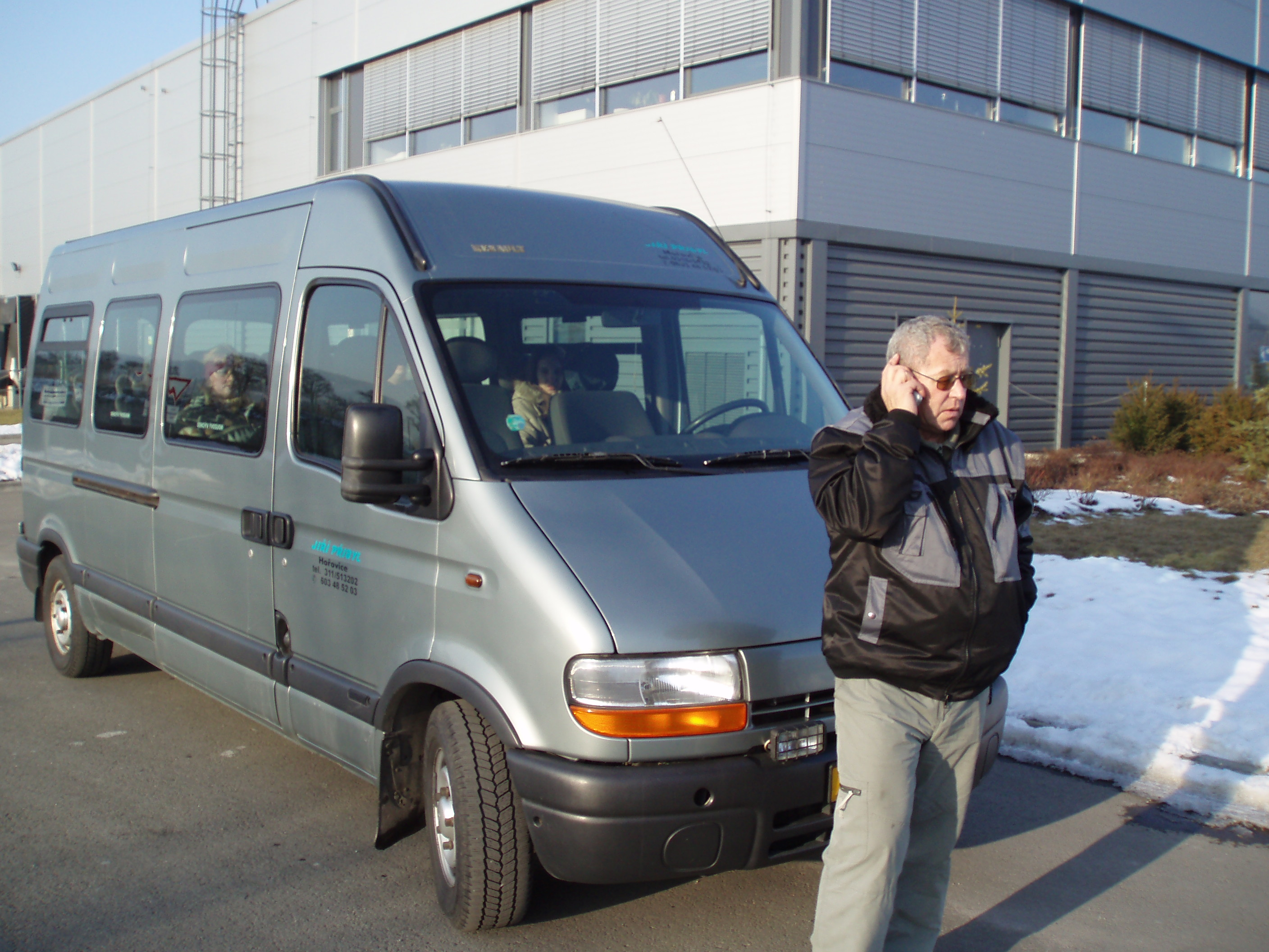 Example of Demand Responsive Transport (DRT) - driver calling to someone before departure